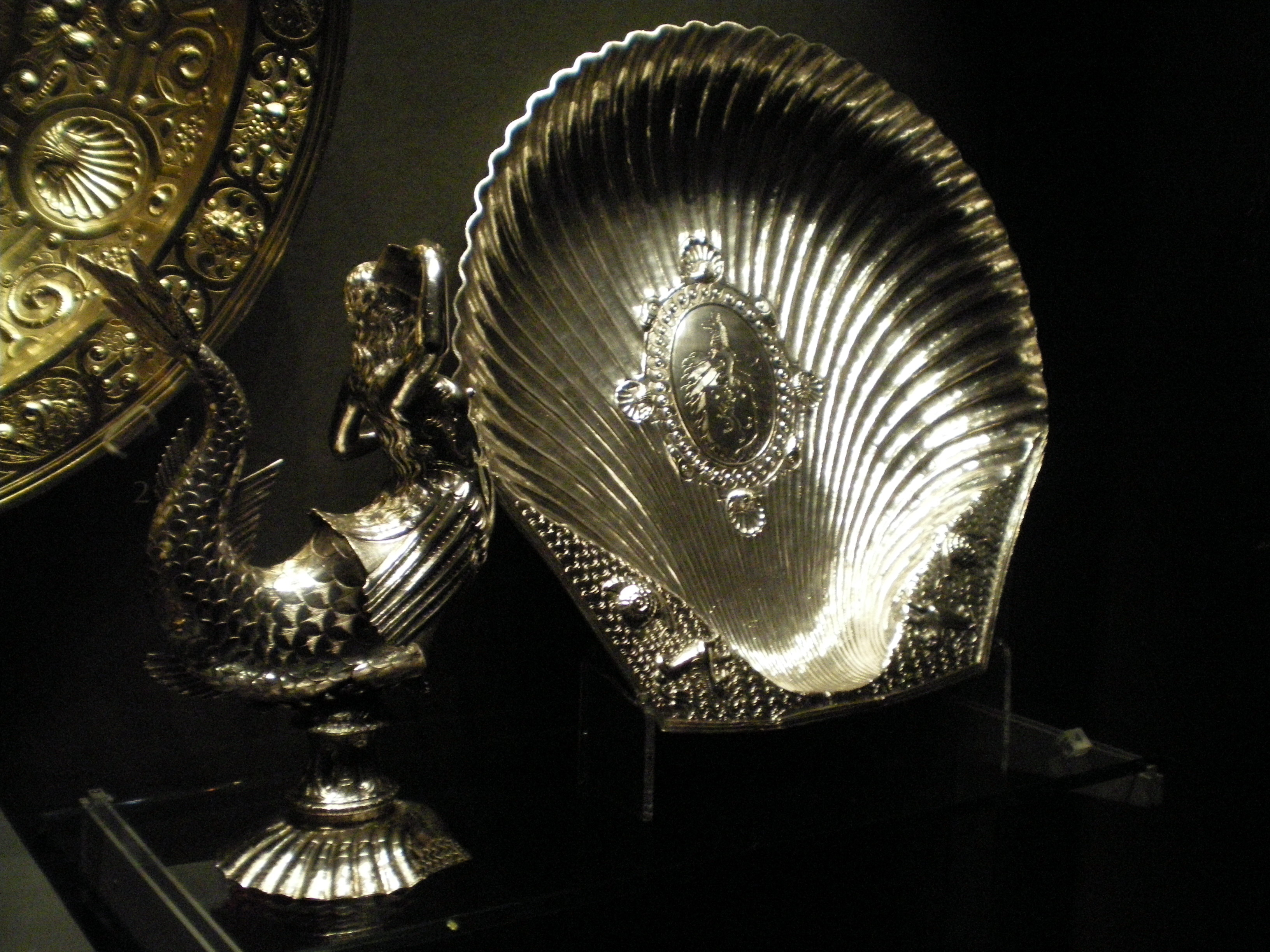 Mermaid ewer and basin Hallmarked for 1610-1611 Silver, embossed and engraved Made in London, maker\'s mark of \'TB\' monogram, struck on upper face of flange of shell. Possibly made for Sir Thomas Wilson (1560-1619) A ewer and basin were used for the washing of hands during and after a meal. Rosewater or other sweet-scented warm water was most commonly used for this purpose. From the 13th century, throughout Europe, a marine theme was considered most appropriate for the decoration of a ewer and basin. Mermaids were particularly fashionable. Ewers and basins played an important role in the ceremonial life of the court and were frequently exchanged as ambassadorial or New Year gifts. Sets were usually the grandest items on display on the buffet, or sideboard table. They were made in gold, silver-gilt or plain silver. The great amount of precious metal meant that the acquisition of a ewer and basin represented a considerable financial expenditure and thus emphasised the status of the owner. This set is typical of the Mannerist style so fashionable at the Jacobean court. The style had originated in the mid 16th century in the courts of mainland Europe. It was characterised by highly sophisticated, fantastical even contorted forms executed in the most precious materials. Other ewers of the period take the form of ships, snails and griffins. Purchased with assistance from the Goldsmiths� Company Collection ID: M.10&A-1974 This photo was taken as part of Britain Loves Wikipedia in February 2010 by art_traveller.